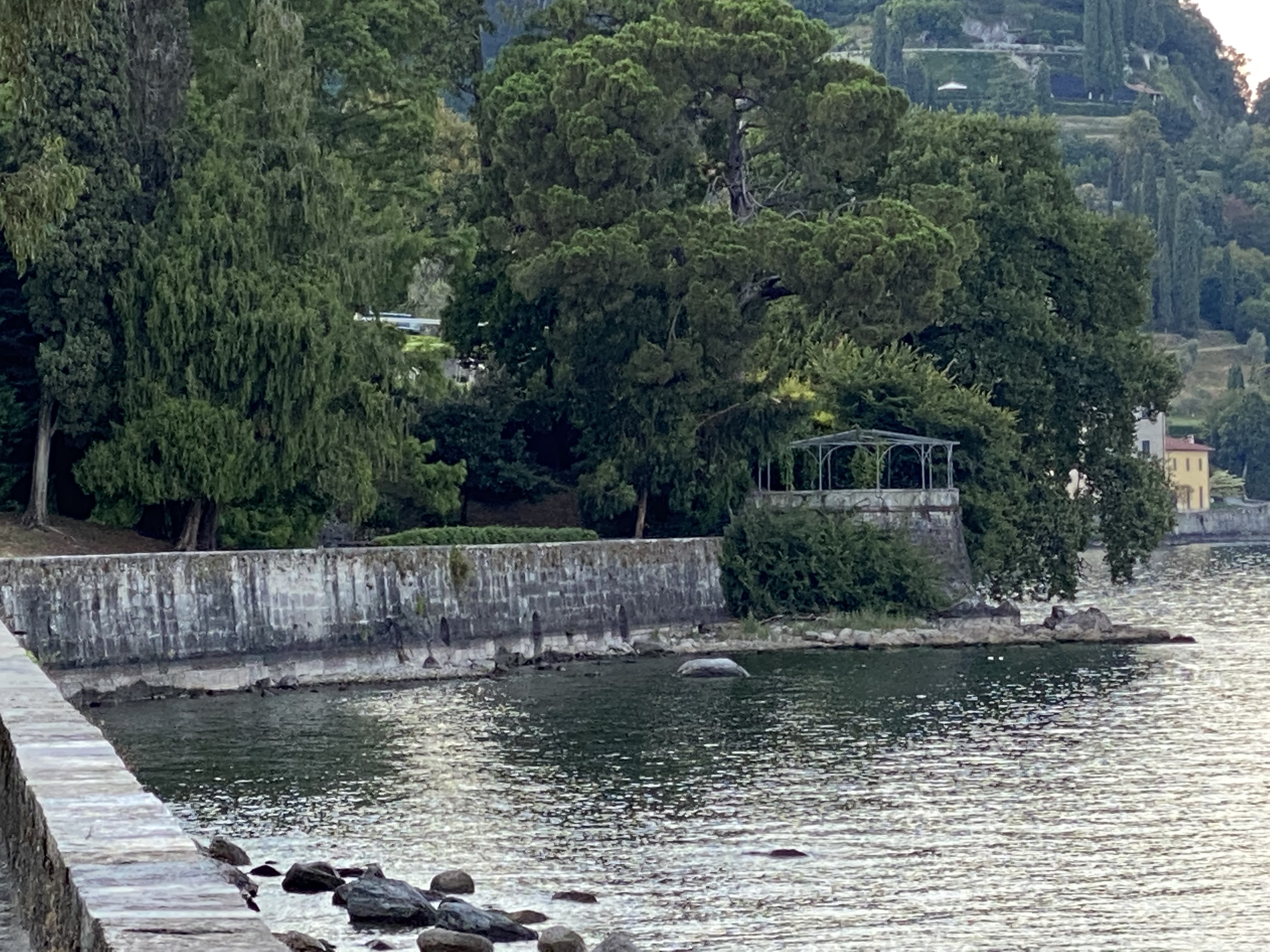 La rotonda